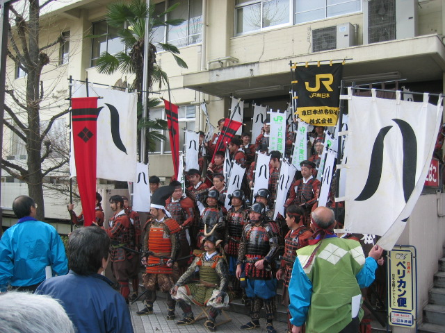 Shingen festival in Kofu, Japan